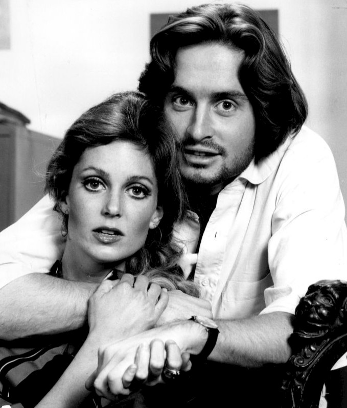 Photo of Tisha Sterling and Michael Douglas from a 1969 presentation of the television program CBS Playhouse.